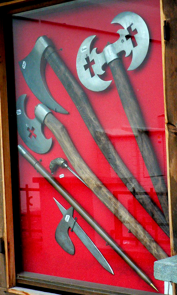 Replica of battle axes Author: MathKnight